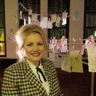 Portrait of Alice Instone 2016